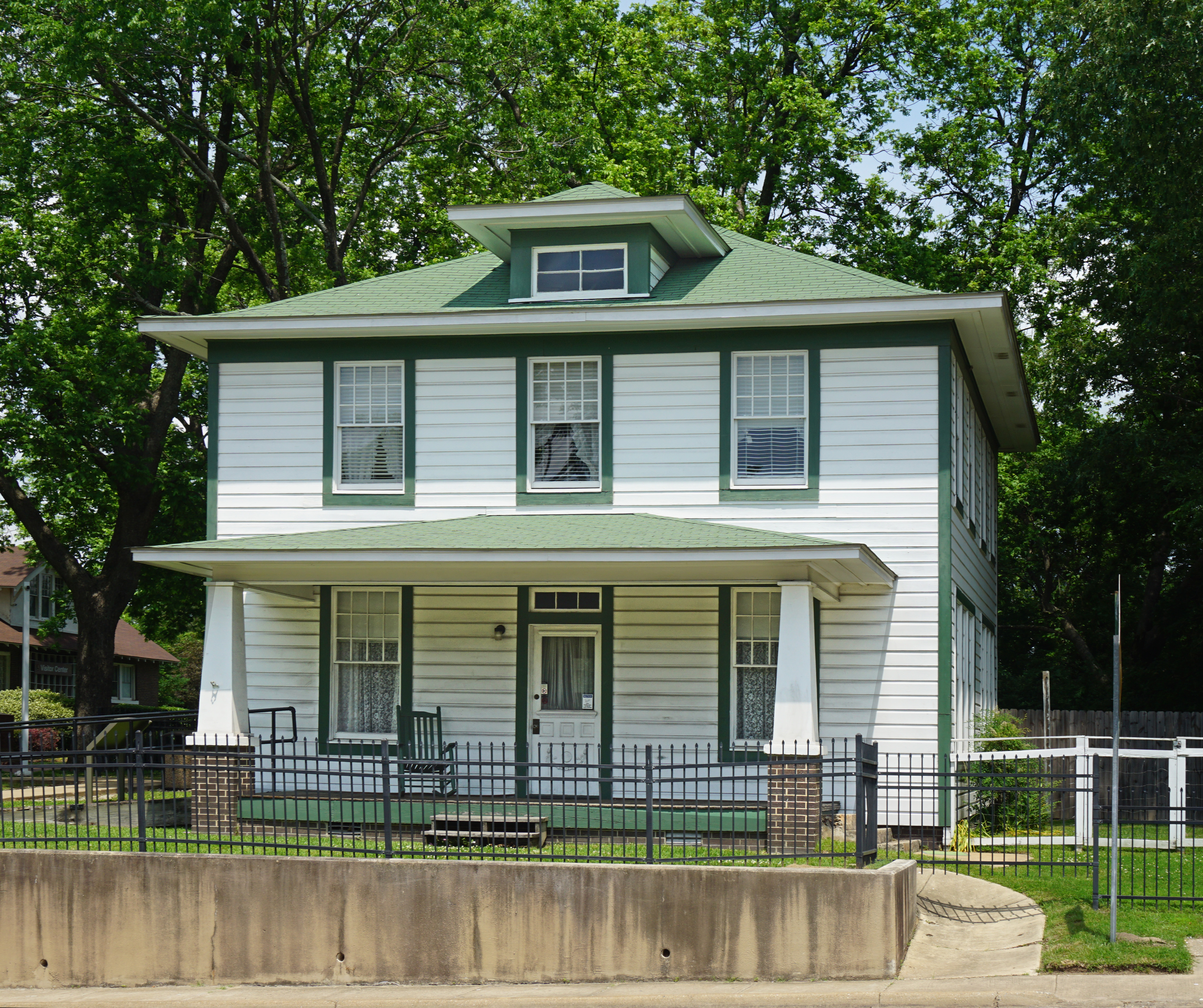 The Bill Clinton Birthplace at the President William Jefferson Clinton Birthplace Home National Historic Site in Hope, Arkansas (United States).